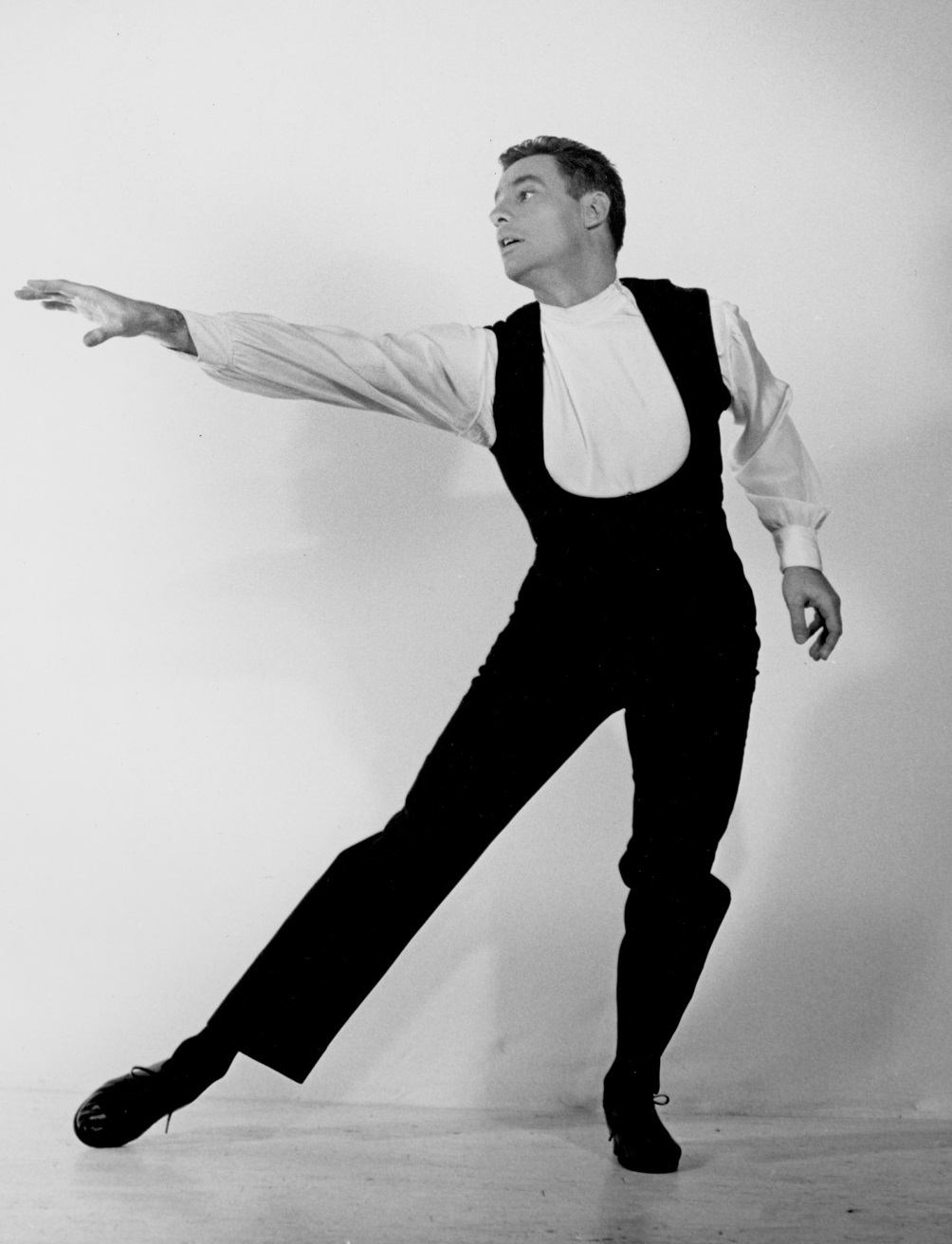 Rodney Strong dancing